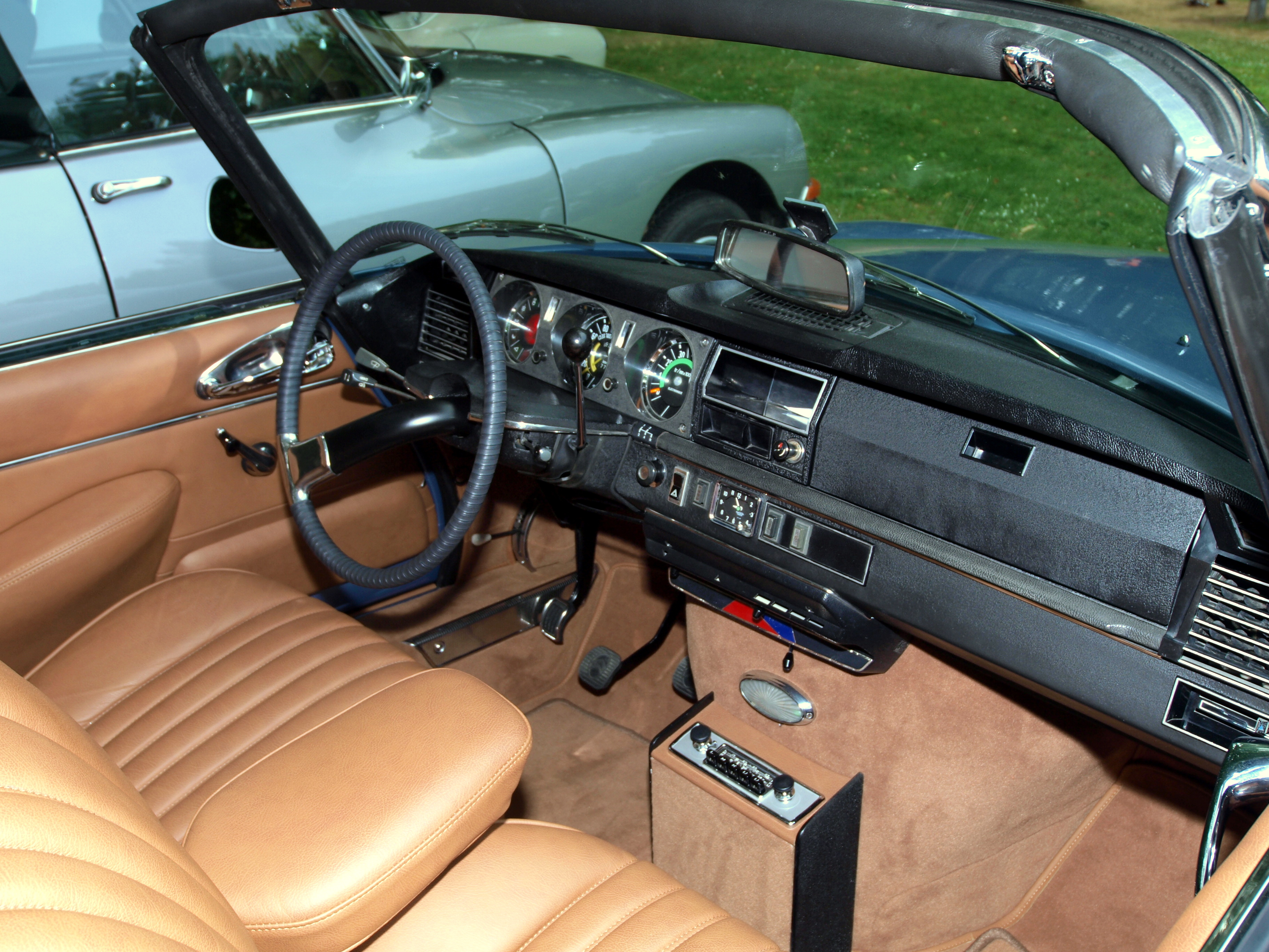 Citroën DS from Kleef, Germany